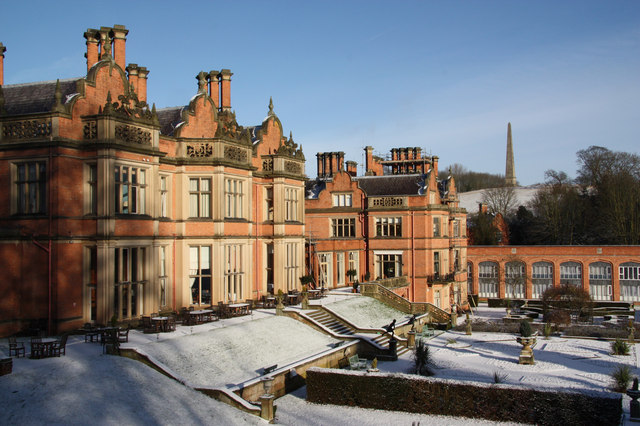 Welcombe Hotel. Country house built for Mark Philips by Thomas Newby to designs by Henry Clutton 1866-80, a hotel since 1931. The obelisk 1690300 in Welcombe Hills can be seen beyond Mark Philips, 1800-73, was an important Manchester politician, one of the first members of Parliament for Manchester in 1832, who was much involved in reform and education; he retired to his Warwickshire estate in 1847.